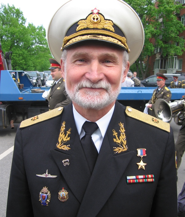 Vsevolod Hmyrov, Hero of the Russian Federation. Sankt-Petersburg. 25 may 2013.